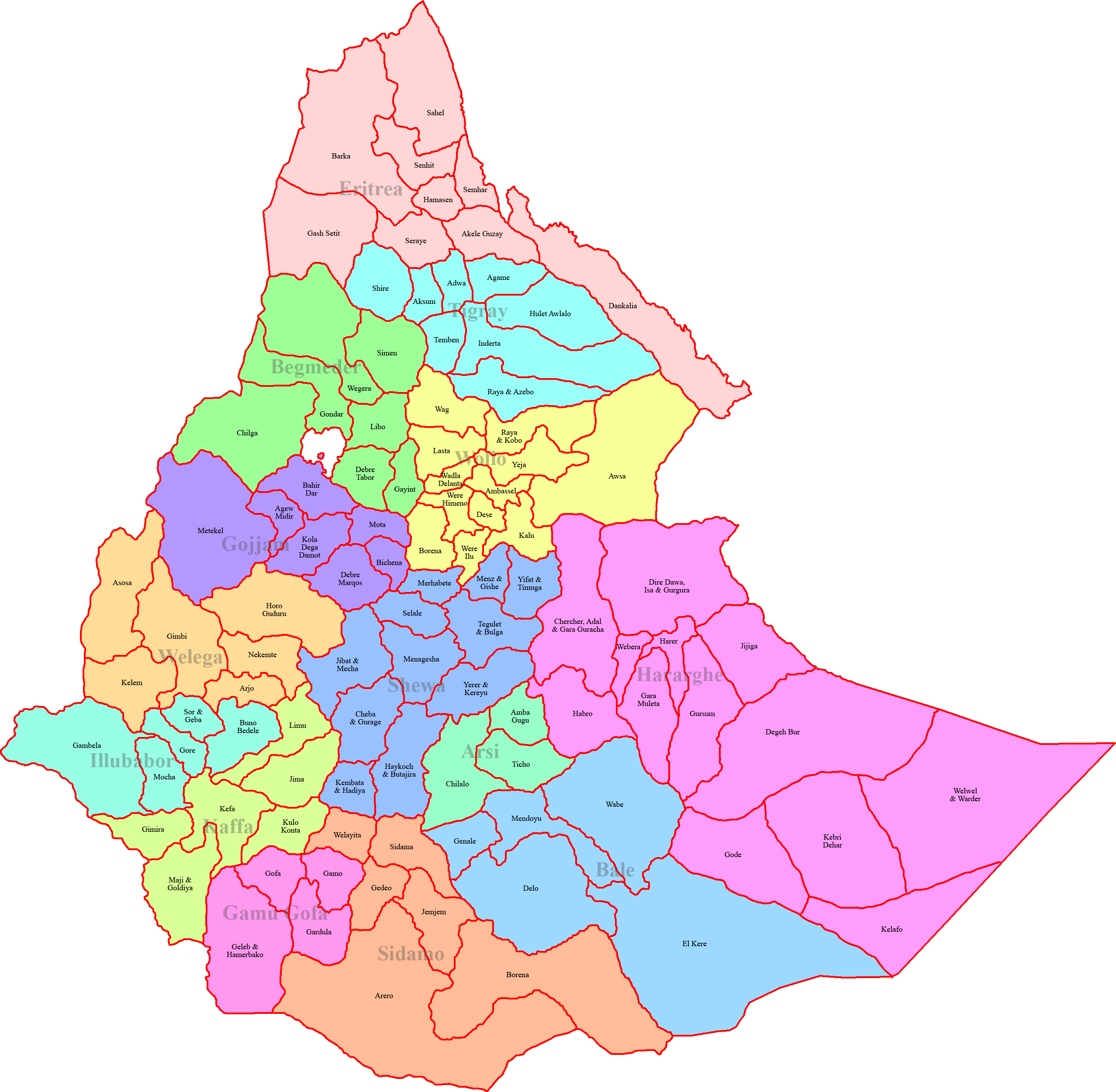 Awraja, the third level country subdivisions of Ethiopia prior to 1996